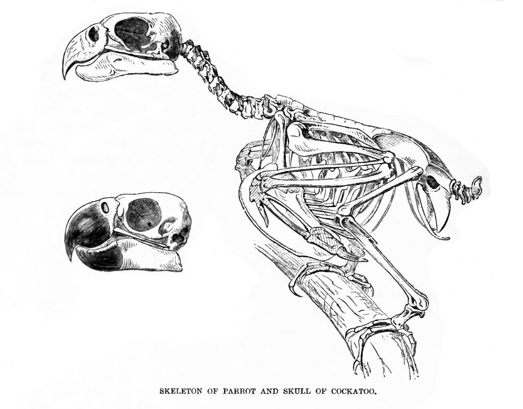 Skeleton of a parrot and skull of a cockatoo